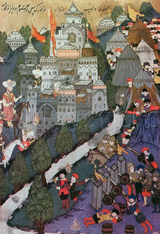 Battle of Nicopolis, 1396, Facsimile of a Miniature Conserved in the Topkapi Museum in Istanbul